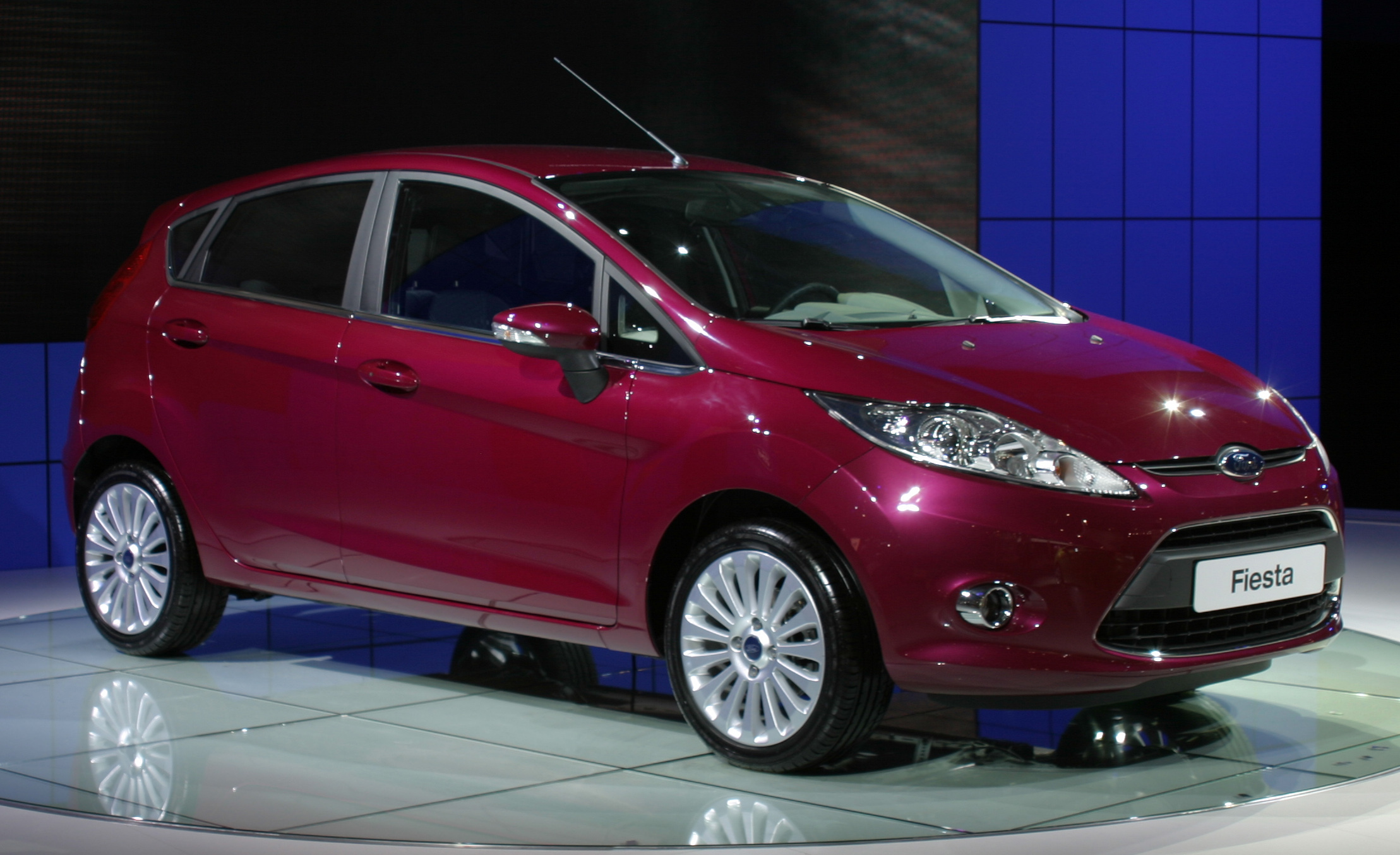 Ford Fiesta mk6 at Moscow International Autoshow, 26 august 2008